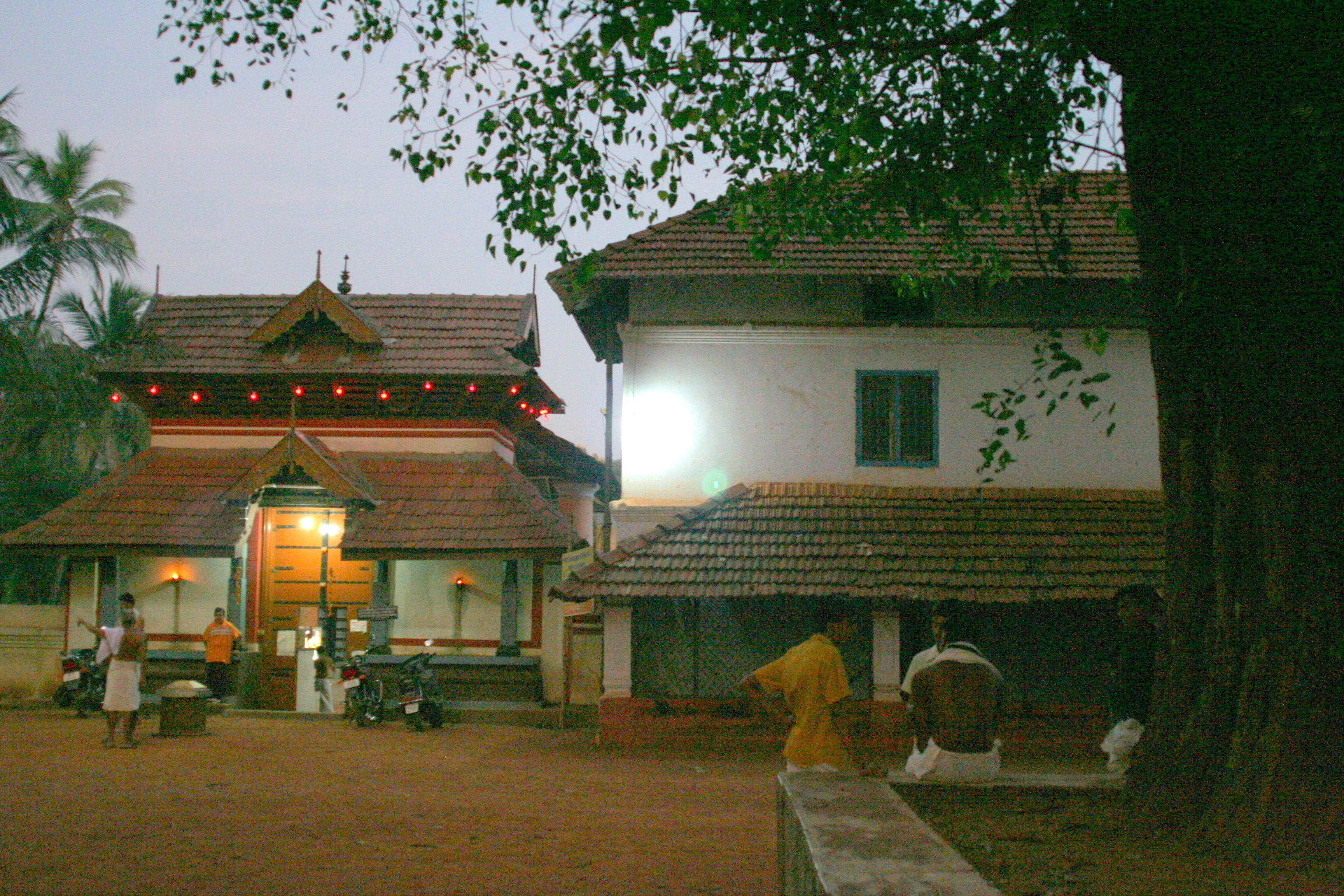 Chakkamkulangara Temple at evening with Banyan Tree